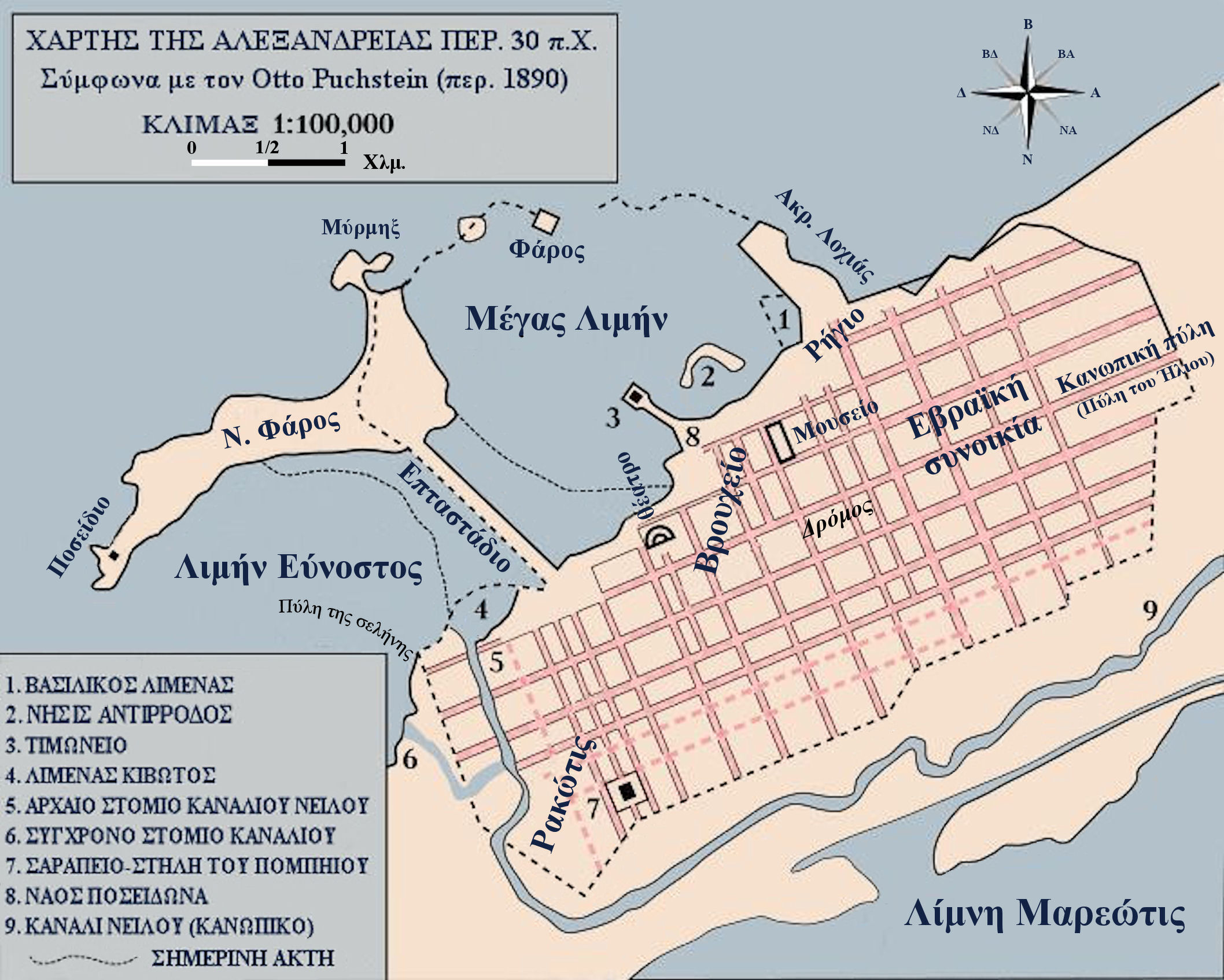 Greek version of Otto Puchstein's 1890s plan of Alexandria c. 30 BC.